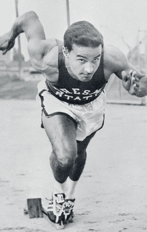 1956 Press Photo Mike Agostini, Fresno State Sprint Star in 220 Yard Dash.